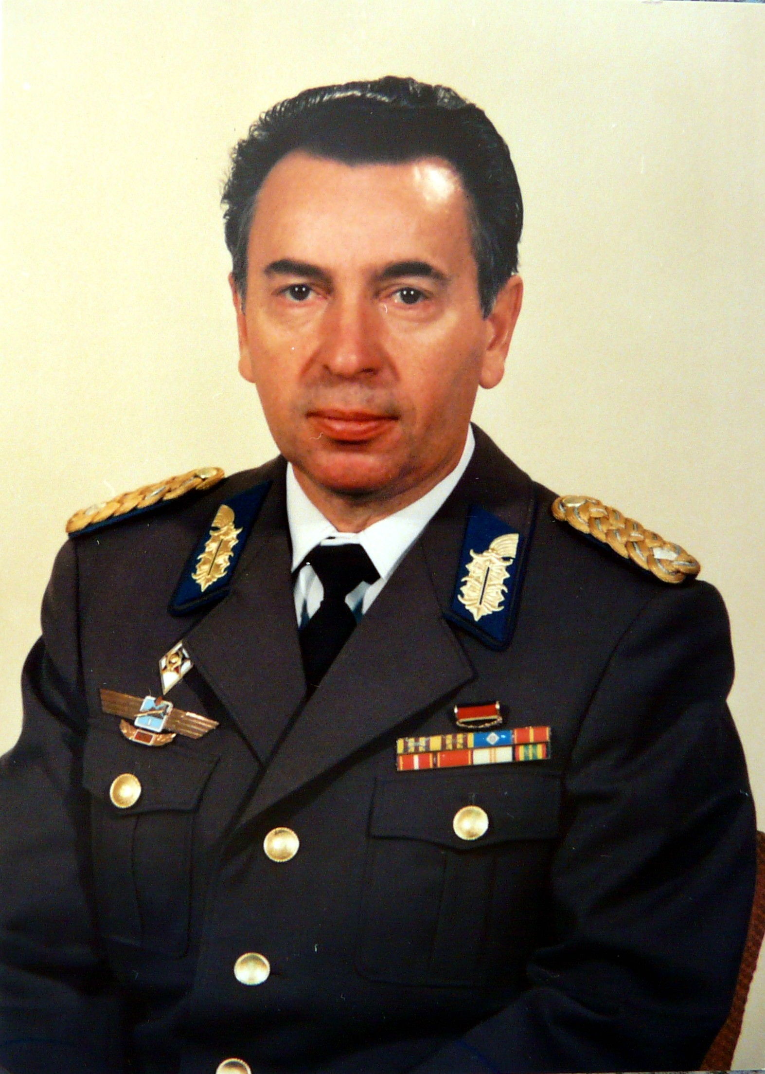 Major general Dr. Wolfgang Thonke, the last deputy commanding general of the National People’s Army Air Force/Air Defence Force and A-3 in 1990.